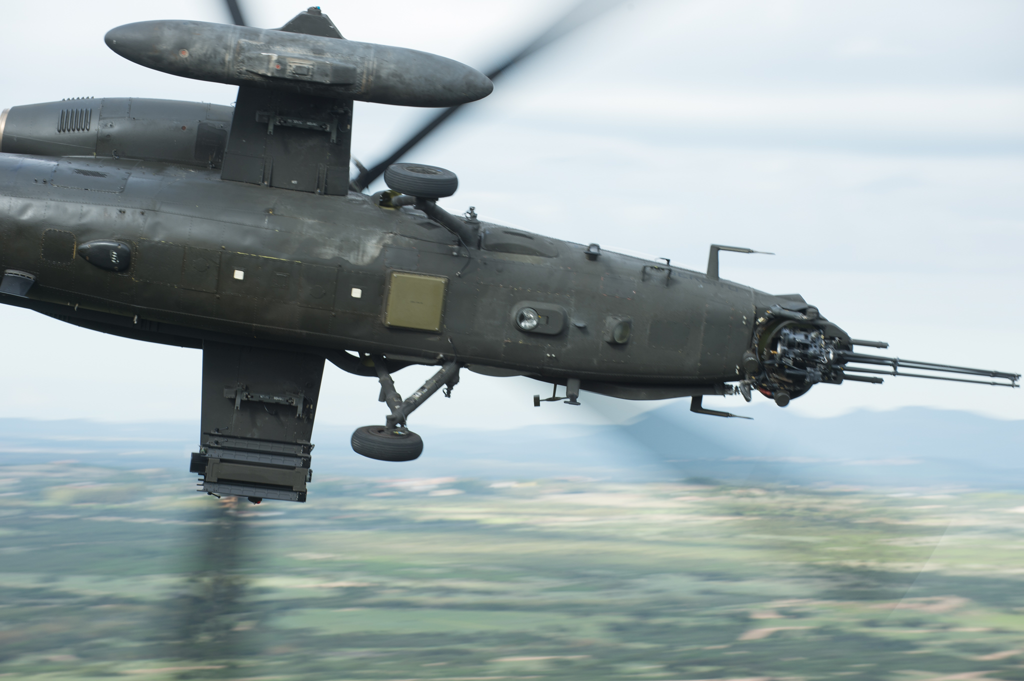 Italian Army - Army Aviation A129D "Mangusta" attack helicopter underside